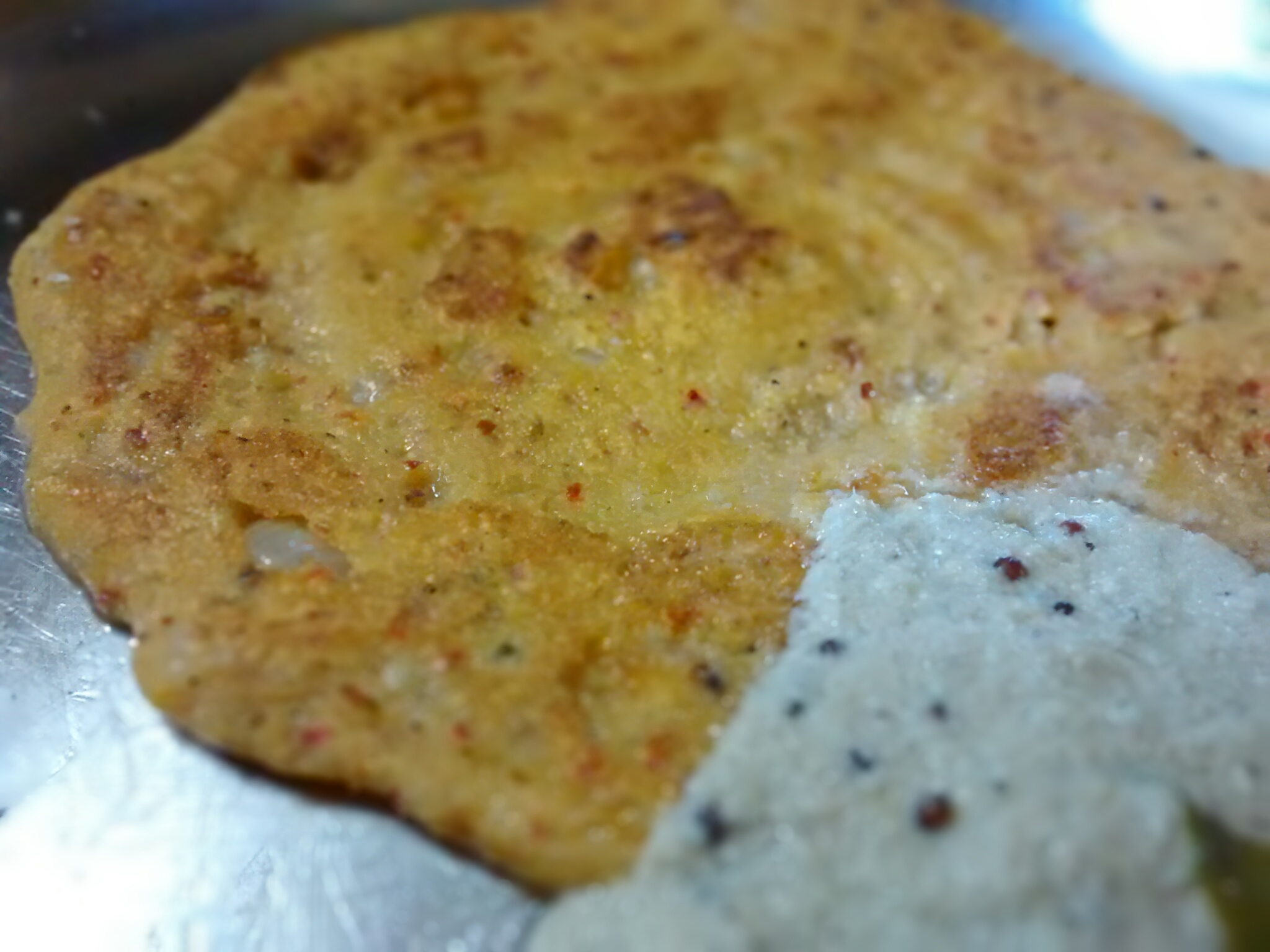 Cooking is one of my favourite hobby. This Adai Dosai with Chutney image was taken at my room with my 'Moto G' mobile phone.